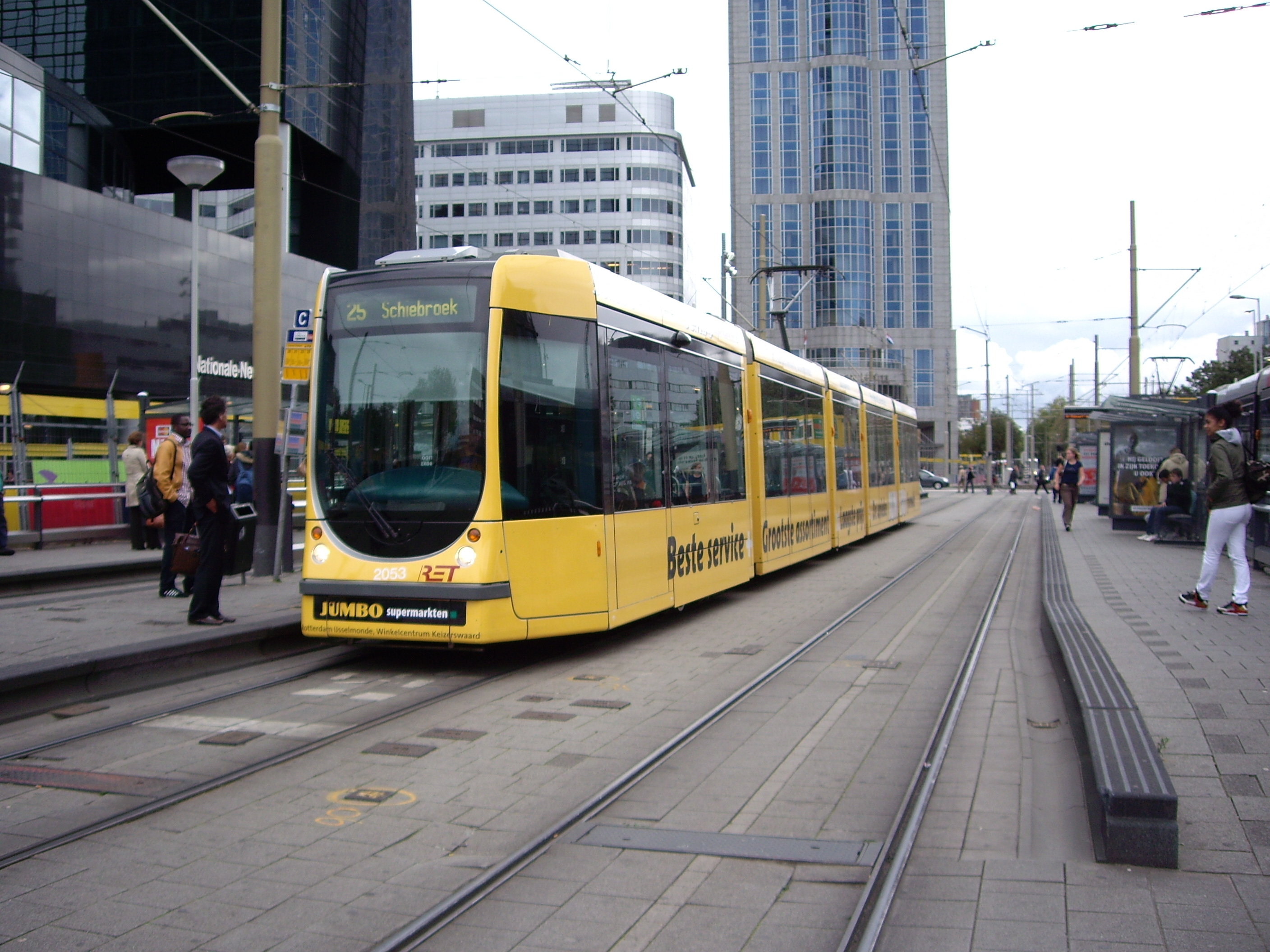 RET Citadis tramcar nr. 2053, at the tramstop in front of the Rotterdam Central Station.